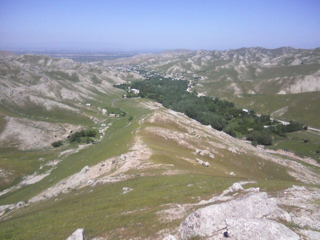 Miranqul mountains (Samarkand, Uzbekistan)